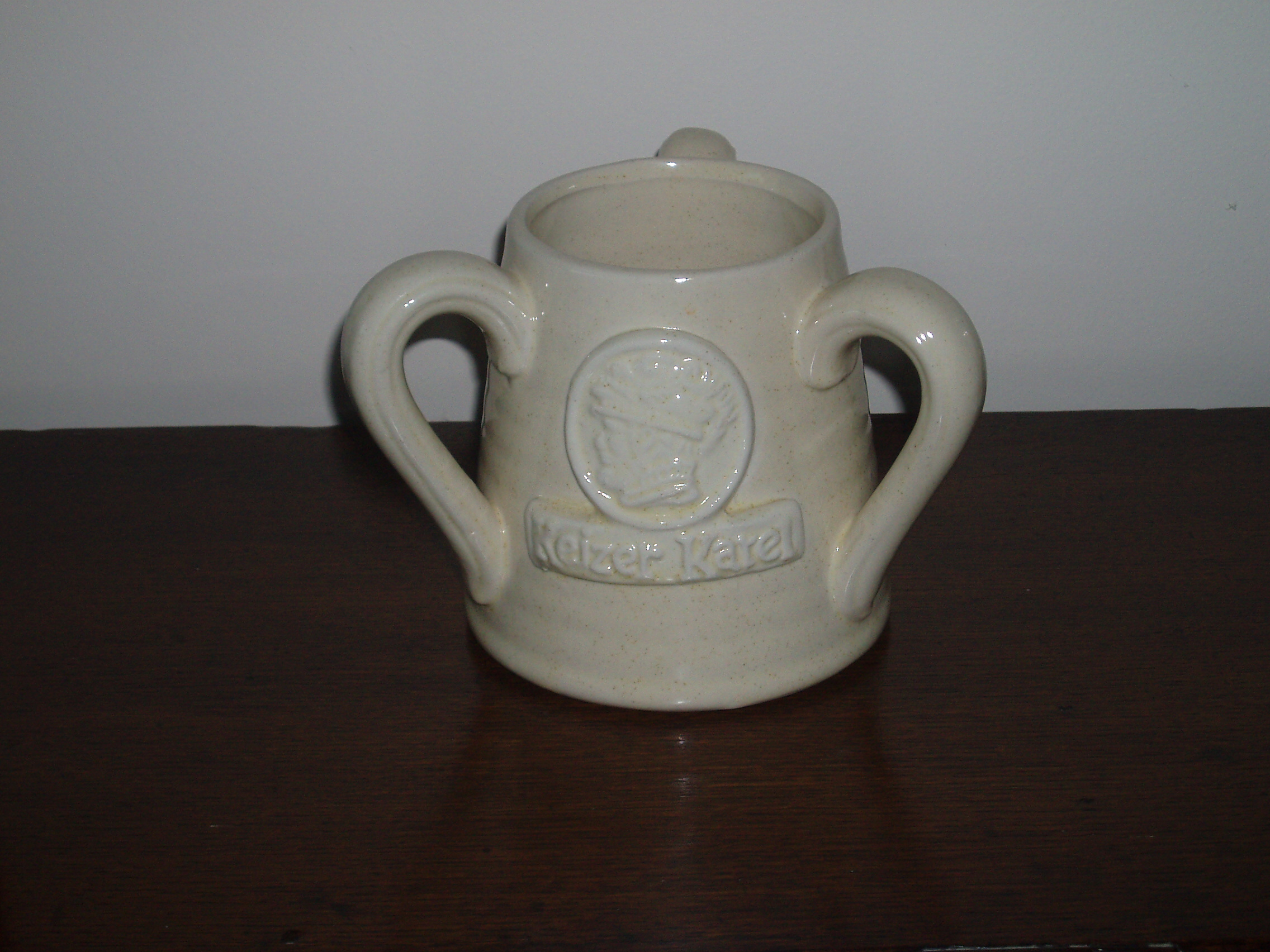 Keizer Karel beer glass